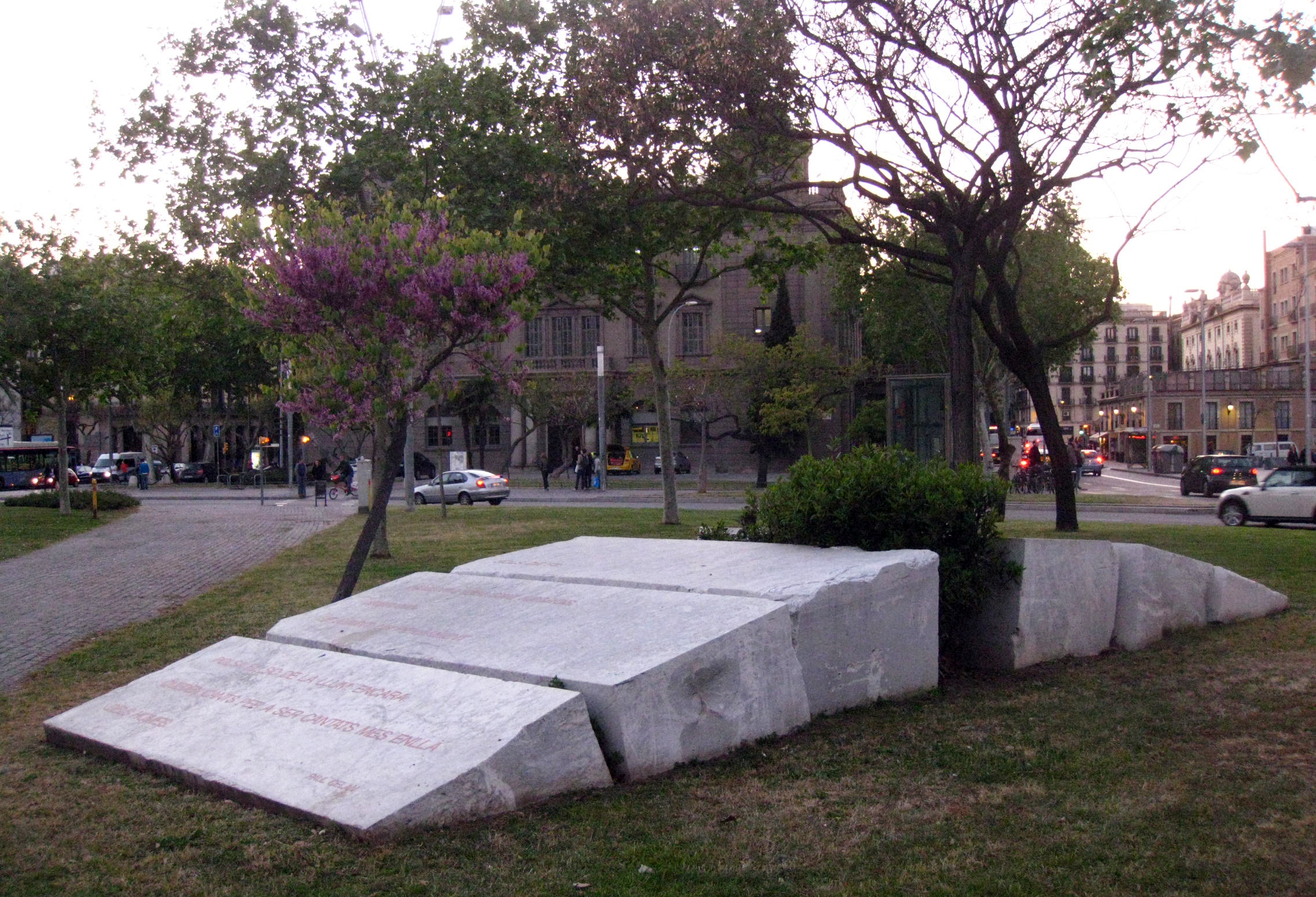 "A Paul Celan. Monument a Josep Moragues" (To Paul Celan. Monument to Josep Moragues, 1999), part of a sculptural installation by Francesc Abad consisting of six wedges of marble bearing Celan's poem Fadensonnen inscribed in both the German original and the Catalan translation (translated by ??), a laurel bush, two Judas trees (known as "trees of love" in Catalan), and a flagpole with explanatory inscriptions and a poem by Àngel Guimerà. In Barcelona.